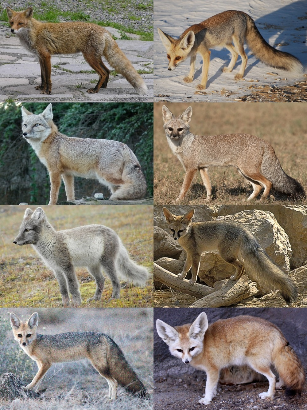 Rüppell's Fox in White Desert, Egypt Vulpes corsac Transferred from de.wikipedia to Commons. The original description page was here. All following user names refer to de.wikipedia. * Bildbeschreibung: Steppenfuchs * Quelle: fotografiert im Zoo Berlin * Fotograf/Zeichner: F. Spangenberg (Der Irbis, eigenes Foto) * Datum: November 2005 Arctic Fox (Alopex lagopus) at Svalbard autumn in September Indian fox, Vulpes bengalensis